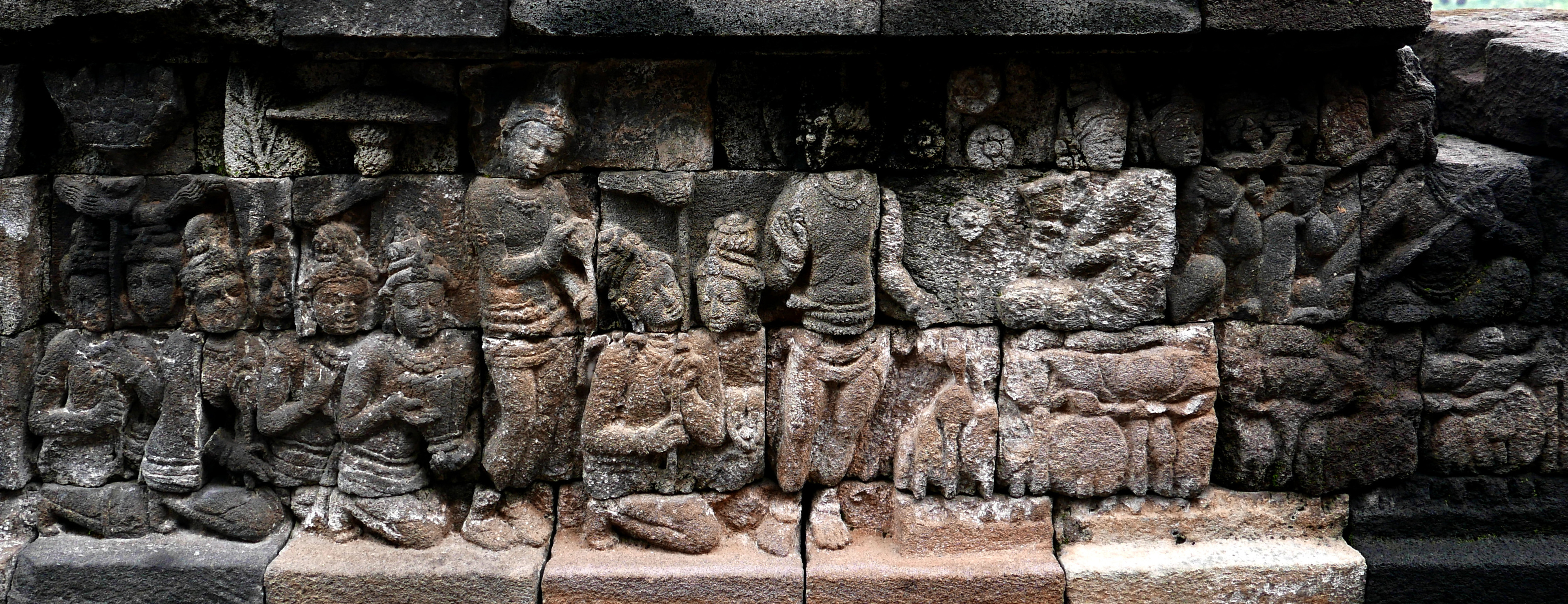 040a W Gandharvas, Gandavyuha Level 3, Borobudur, photograph by Anandajoti Bhikkhu